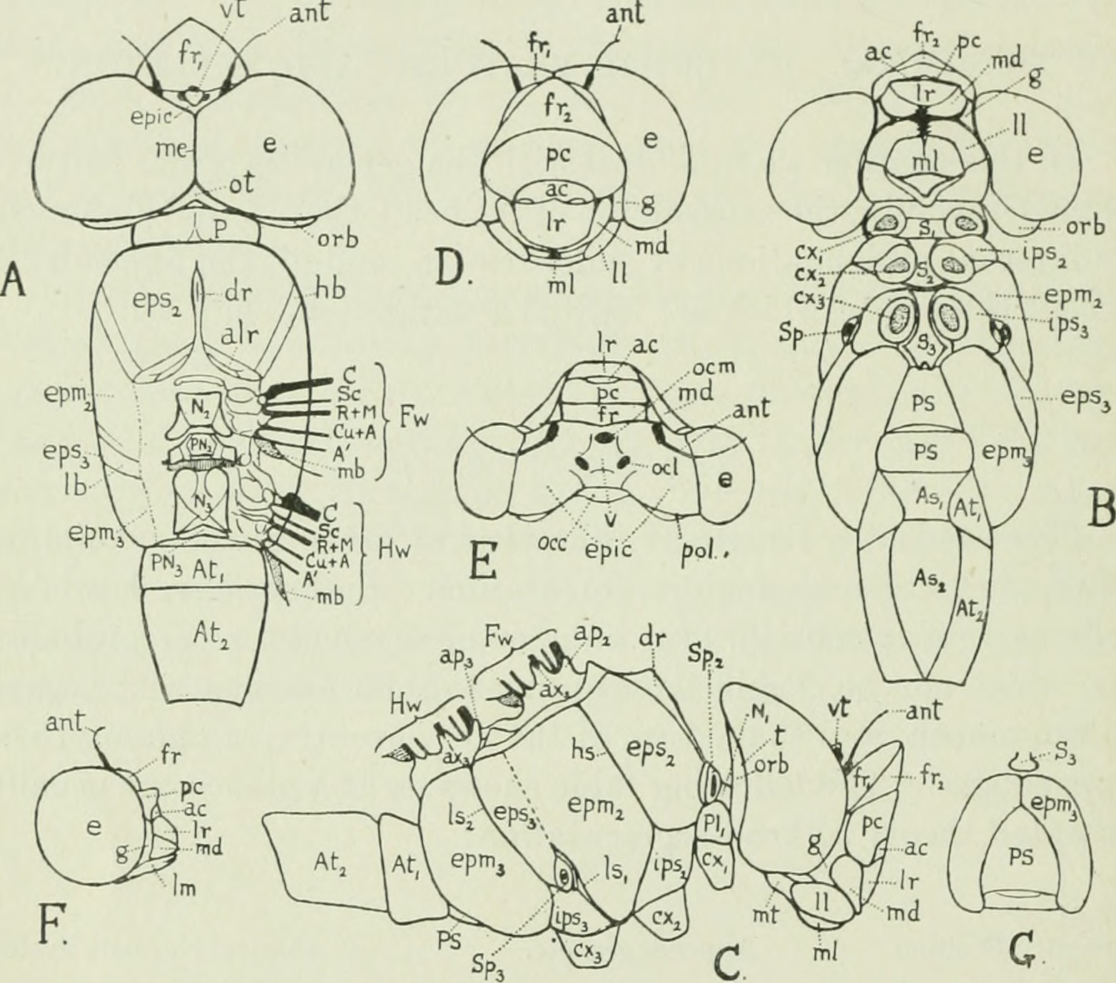 Title: The biology of dragonflies (Odonata or Paraneuroptera) Year: 1917 (1910s) Authors: Tillyard, Robin John, 1881-1937 Subjects: Dragon-flies Publisher: Cambridge (Eng. ) : University Press Text Appearing Before Image: 10 THE IMAGO (CH. It seems fairly certain that, originally, only the first of these segments was preoral. Thus it corresponded with the prostomium of Annulate Worms, and is not strictly to be considered as an appendage-hearing segment. The mouth itself has moved from an original ventral position, to take up a place at the extreme anterior end of the head. Hence the original ventral surfaces of segments vt ant Text Appearing After Image: Fig. 1. Exoskeleton of head, thorax, and first two abdominal segments, A. Austrophlebia costalis Tillyard, female; dorsal view. B. The same, ventral view. C. The same, lateral view. D. Head of the same, front view. E. Head of Lestes, dorsal view. F. The same, lateral view. G. Metathorax of Orthetrum, ventral view. A analis; A' secondary analis; ac anteclypeus; alr ante-alar ridge; ant antenna; ap costal process; As urosternite; At; urotergite; ax axillary; C costa; Cu cubitus; cx coxa; dr dorsal carina; e eye; epic epicranium; epm epimerum; eps episternum; fr frons; fr1 its superior, fr2 its anterior portion; Fw fore-wing; g gena: hs humeral suture; Hw hind-wing; ips infra-episternum; ll lateral lobe of labium; lm labium; lr labrum; ls1 first, ls2 second lateral suture; M media; mb membranule; md mandible; me median eye-line; ml median lobe of labium; mt mentum; N notum; occ occiput; ocl lateral, ocm median ocellus; orb orbit; ot occipital triangle; P prothorax; pc postclypeus; Pl pleurum; PN postnotum; pol postocular lobe; PS post-sternum ; R radius; S sternum; Sc subcosta; Sp spiracle; t temple; v vertex; vt vertical tubercle, (A-D and G x2; E, F x5.3) Original.